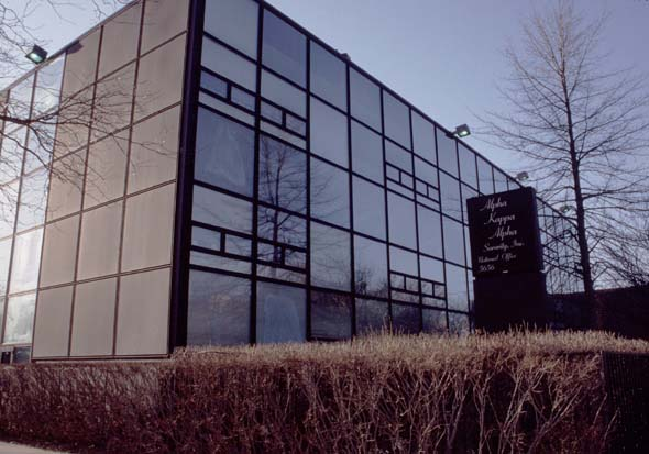 Author contacted me via e-mail in order to use image via Alpha Kappa Alpha. This is the organization's headquarters.